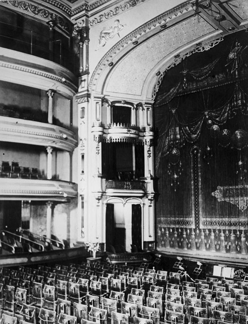 1917 photo by Harry Shipler of the interior seating and stage of the Salt Lake Theatre